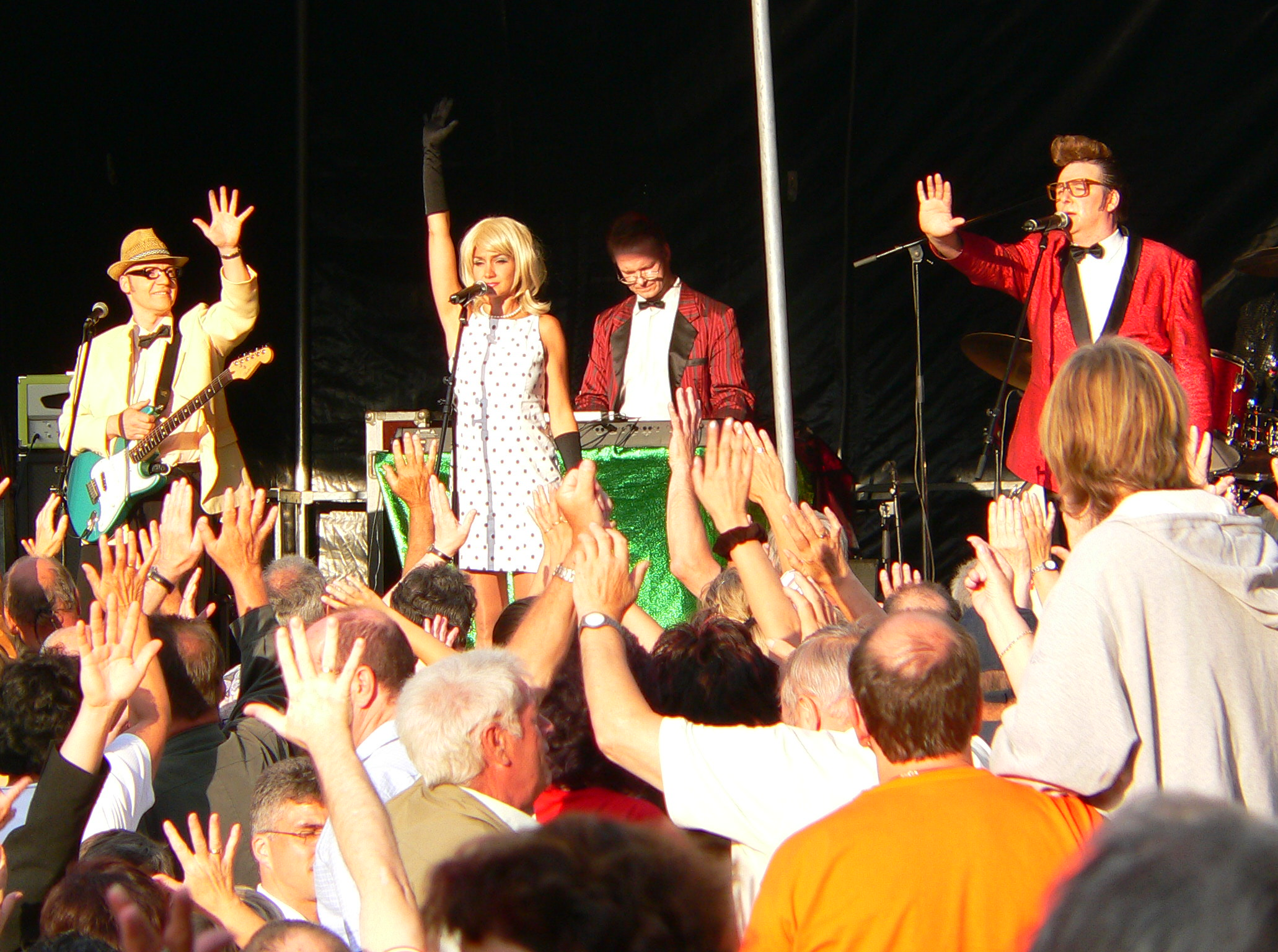 Cutural event of a series of events called "Hier spielt die Musik" organised by the managment of the city Neckarsulm/Germany, by J. Köhler, 2007 (in this case band "Wirtschaftswunder" from Nürtingen)